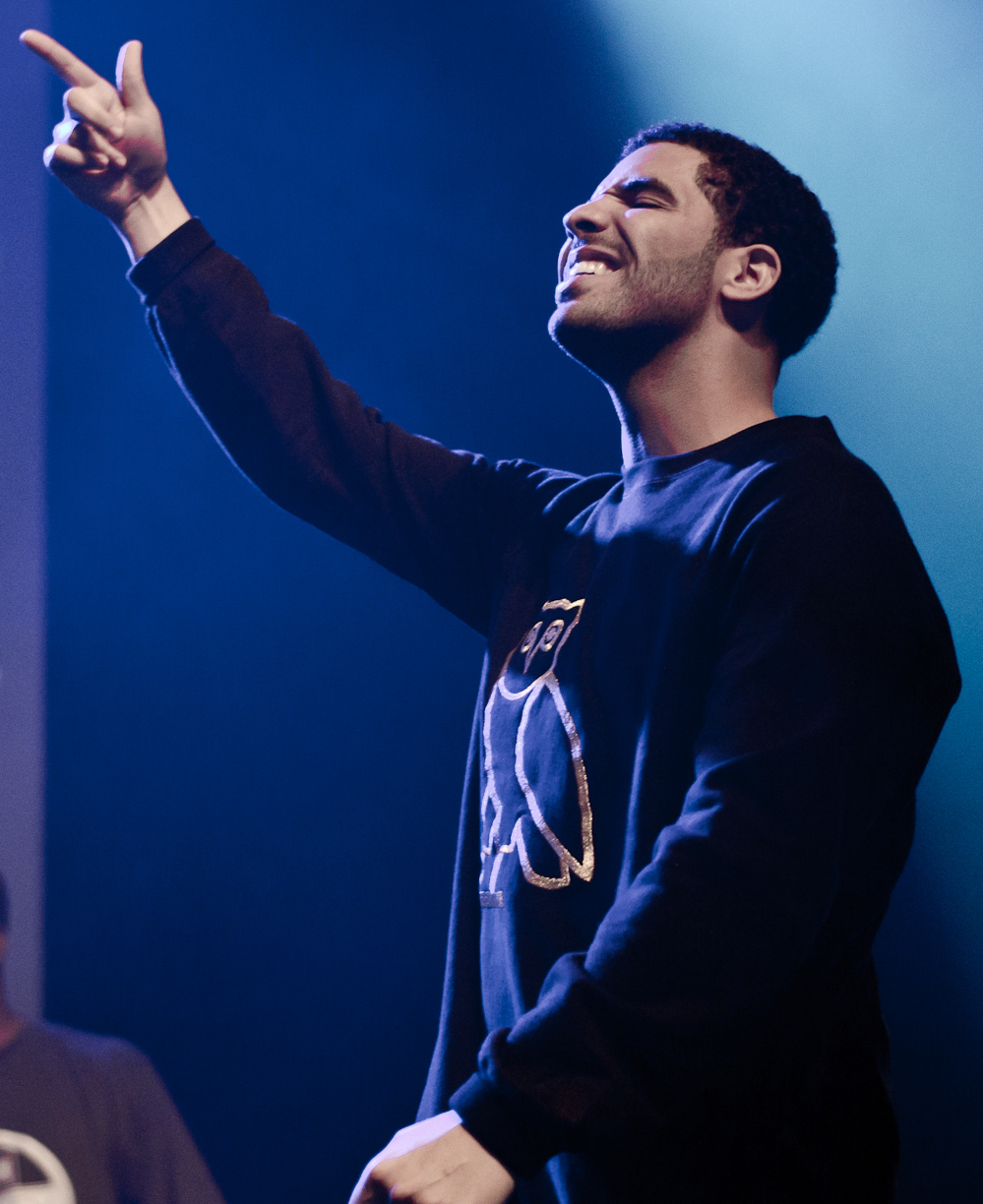 Drake at the Sound Academy, Toronto, Ontario, Canada.